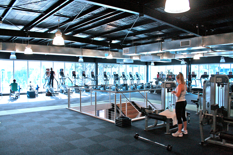 Spacious Gym Floor